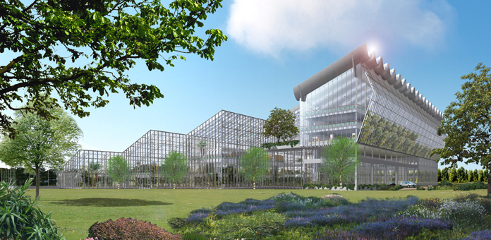 Ontwerp Floriade Kristinsson